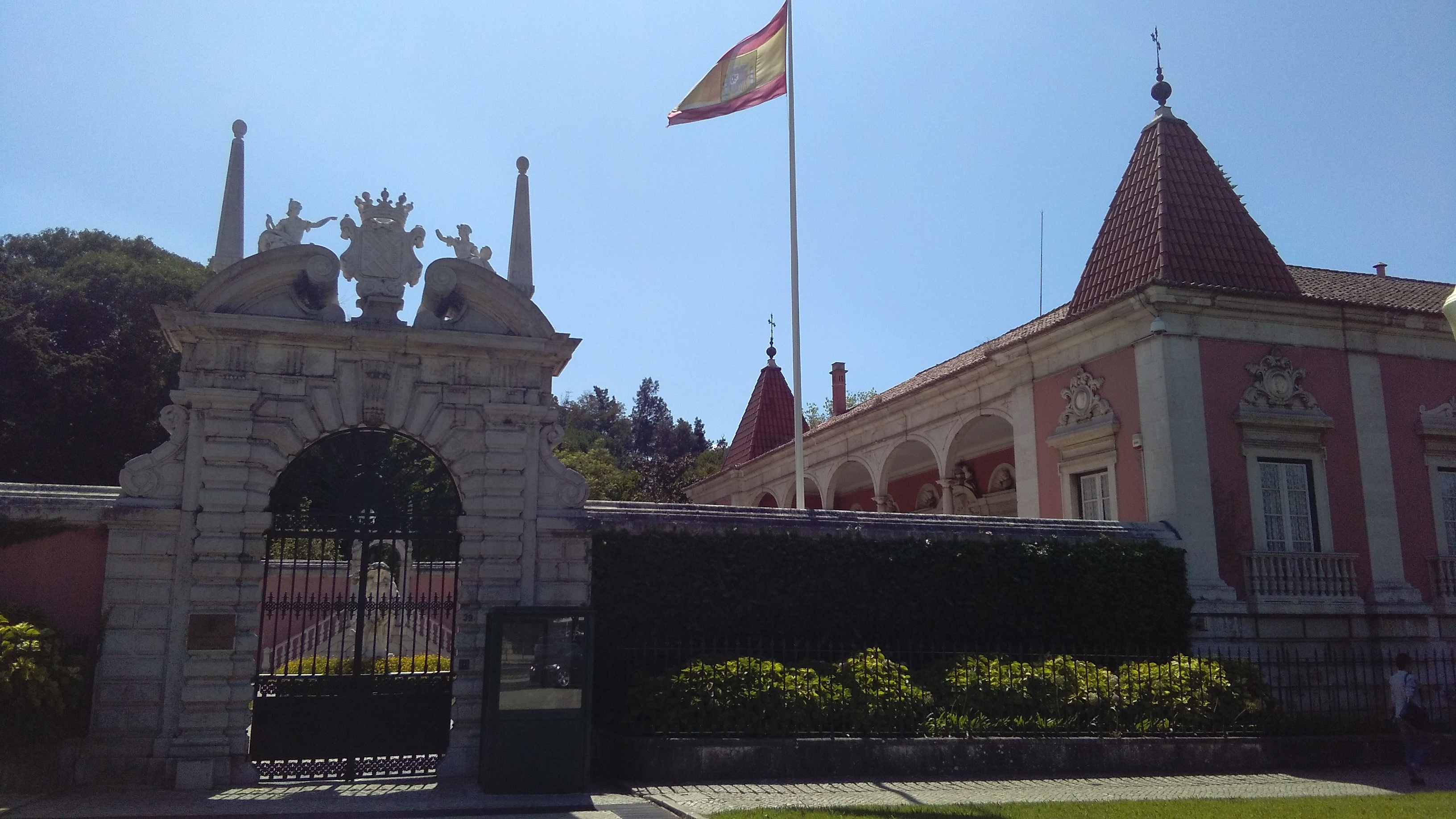 View of facade and main entrance of Palhavã Palace, the building now houses the Spanish embassy in Lisbon, Portugal.